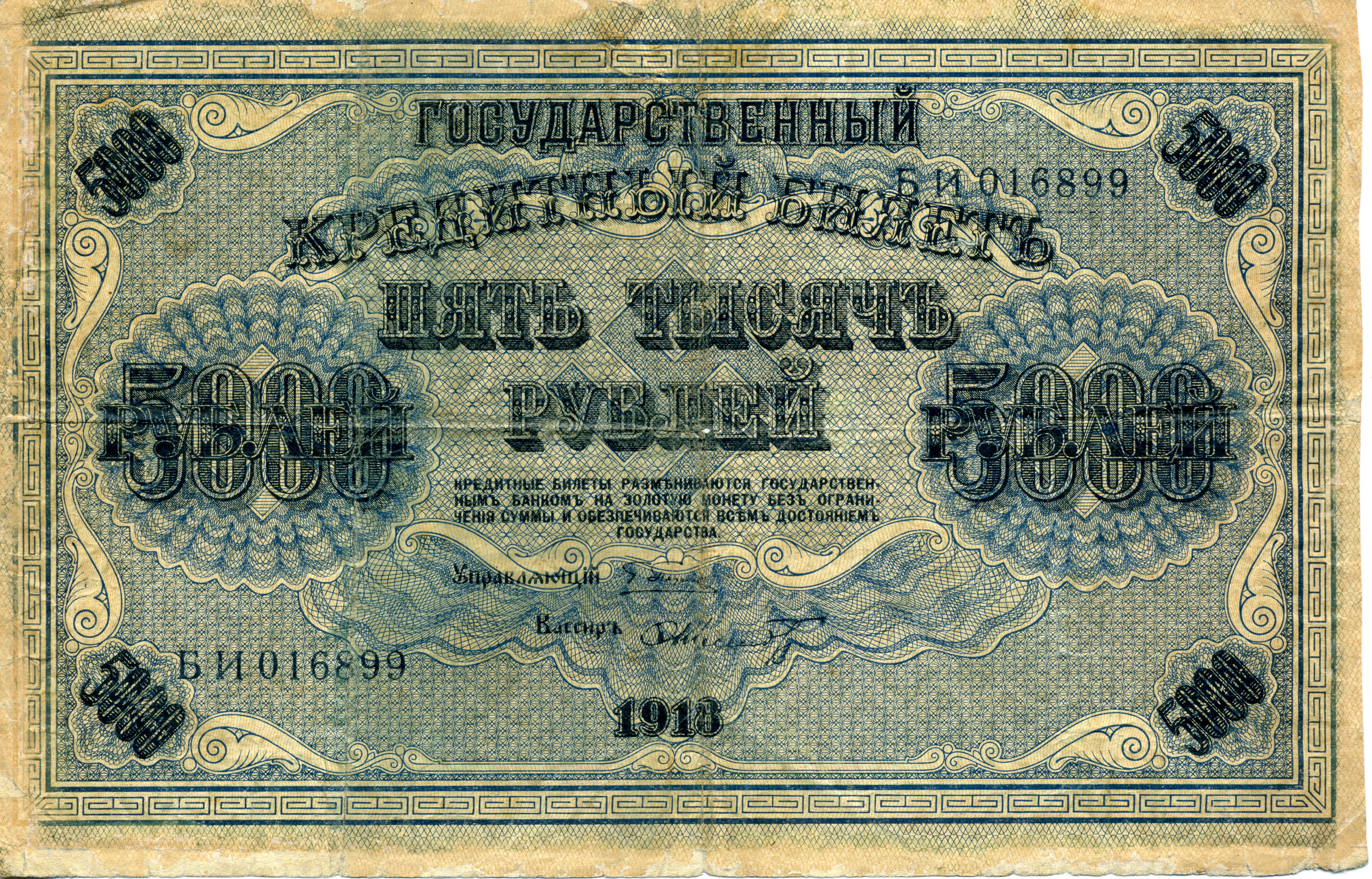 'Pyatakovka' of Soviet Russia, 5000 roubles. Front.